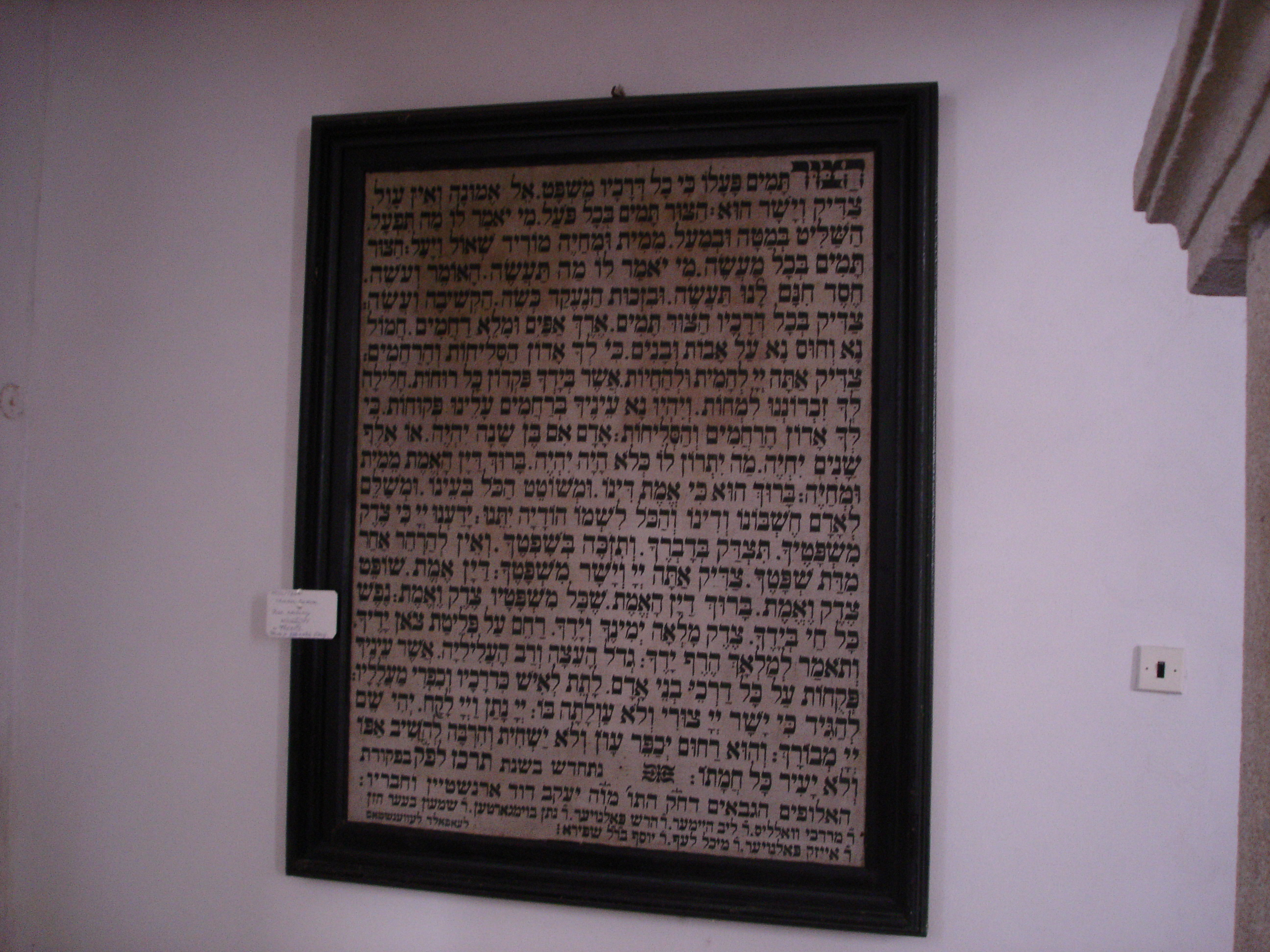 Old (Front) synagogue in Třebíč jewish quarter. Interier with picture in hebraistic.